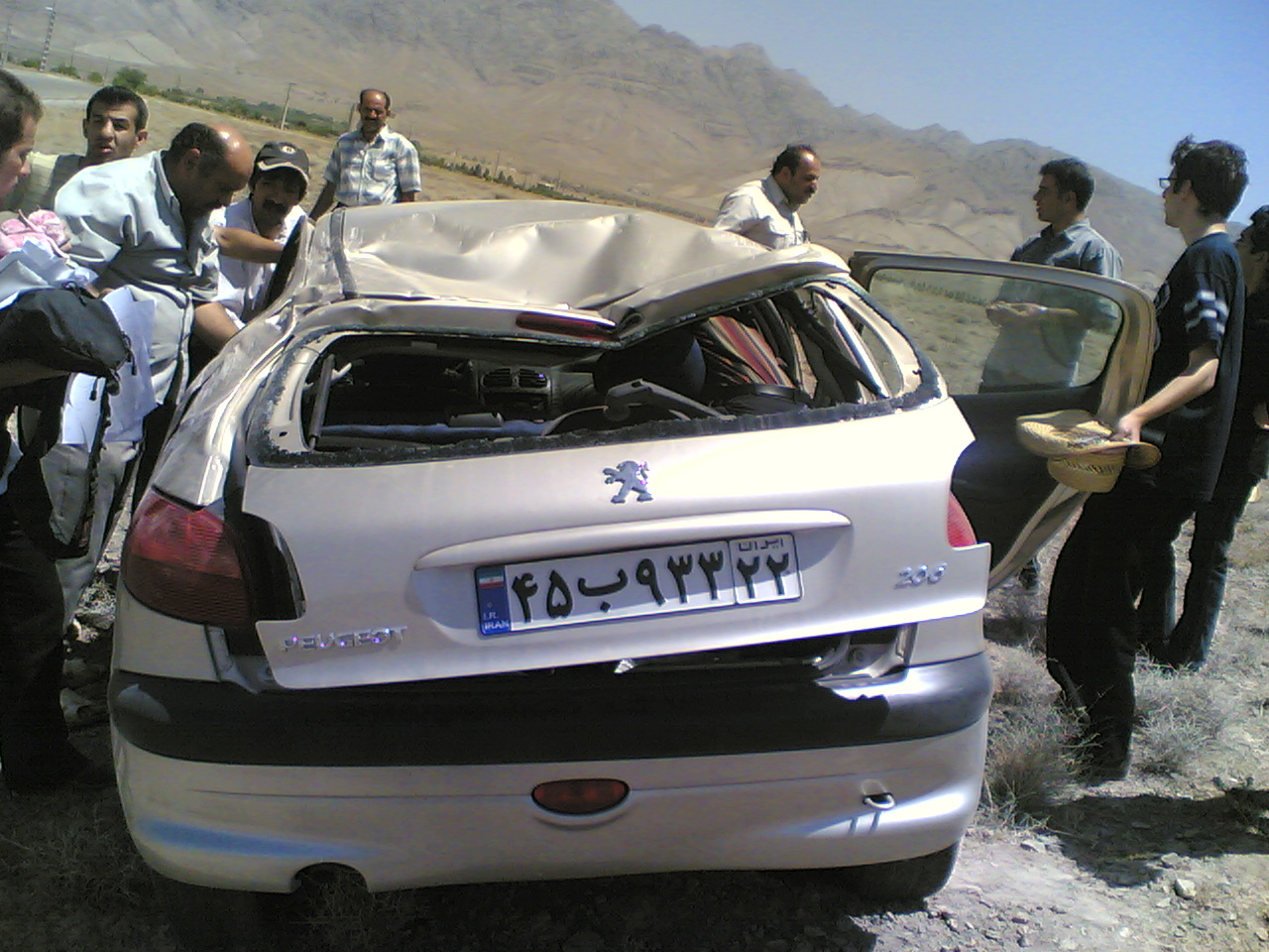 rollover in Tafresh University, Iran